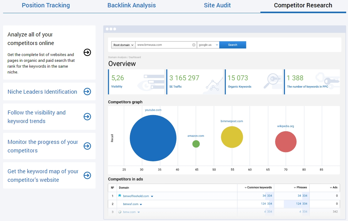 Competitor analysis graph example